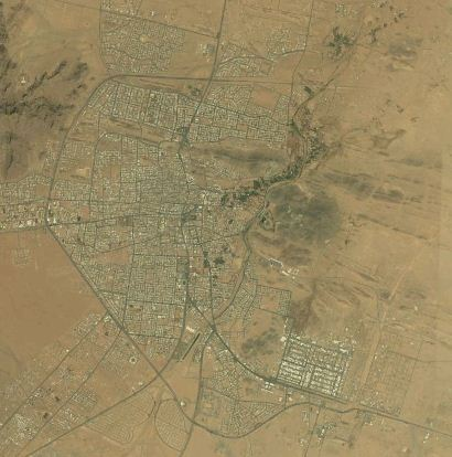 in saudi arabia